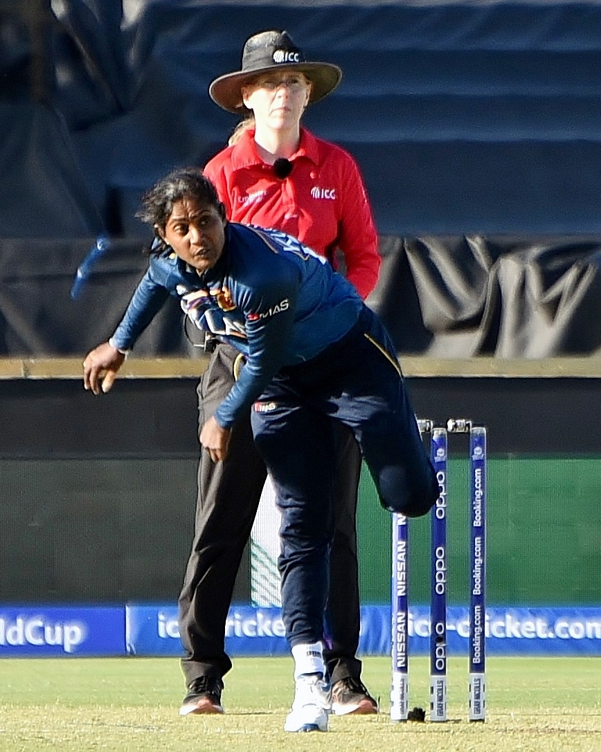 Sugandika Kumari bowling for Sri Lanka against Australia during their 2020 ICC Women's T20 World Cup match at the WACA Ground in Perth, Australia